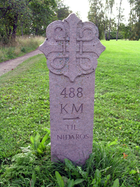 Milestone along the pilgrim trail between Oslo and Trondheim at Hamar, Norway.